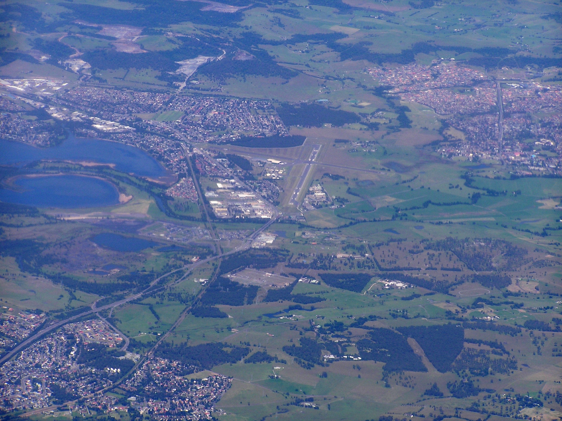 Areal photo of Albion Park and Albion Park Rail from north west